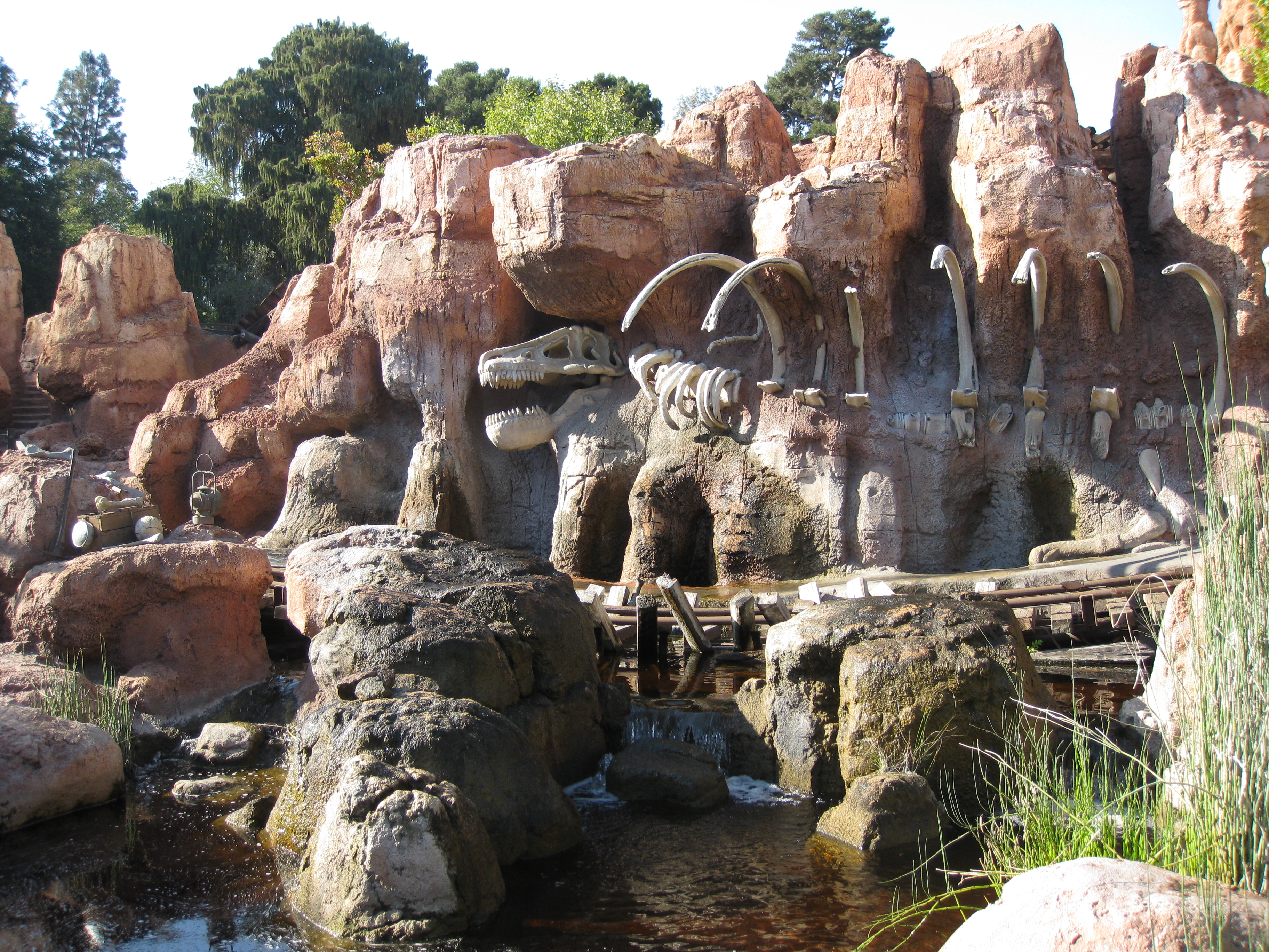 Big Thunder Mountain at Disneyland